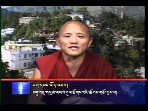 Ngawang Woebar.